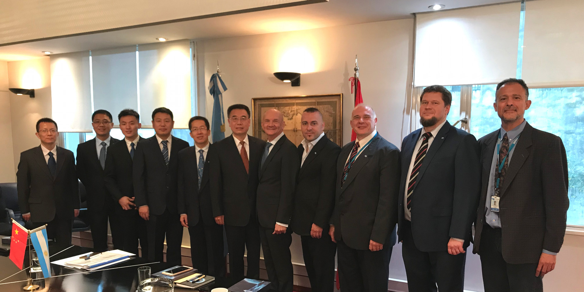 Members of CONAE, the Xi’an Satellite Control Center (XSCC), the Beijing Aerospace Command Center (BACC) and the Beijing Institute of Tracking and Telecommunication Technology (BITTT) during a meeting at CONAE's HQs. At the center of the pictures are Huang Quisheng, Senior Counselor of the China Launch and Tracking Control General (CLTC), and Félix Menicocci, General Secretary of CONAE.